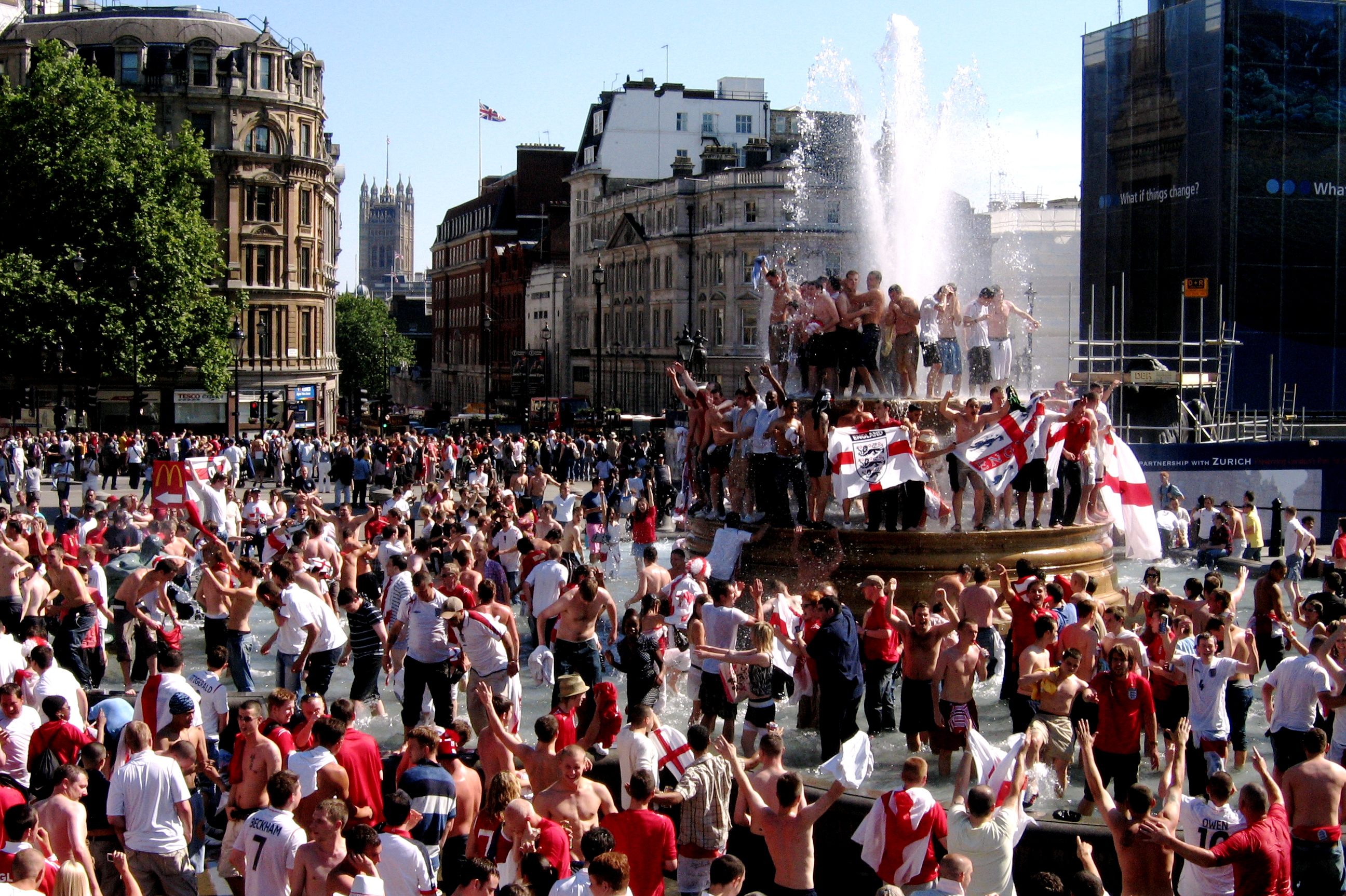 trafalgar square, World Cup, St George's Cross, city of westminster